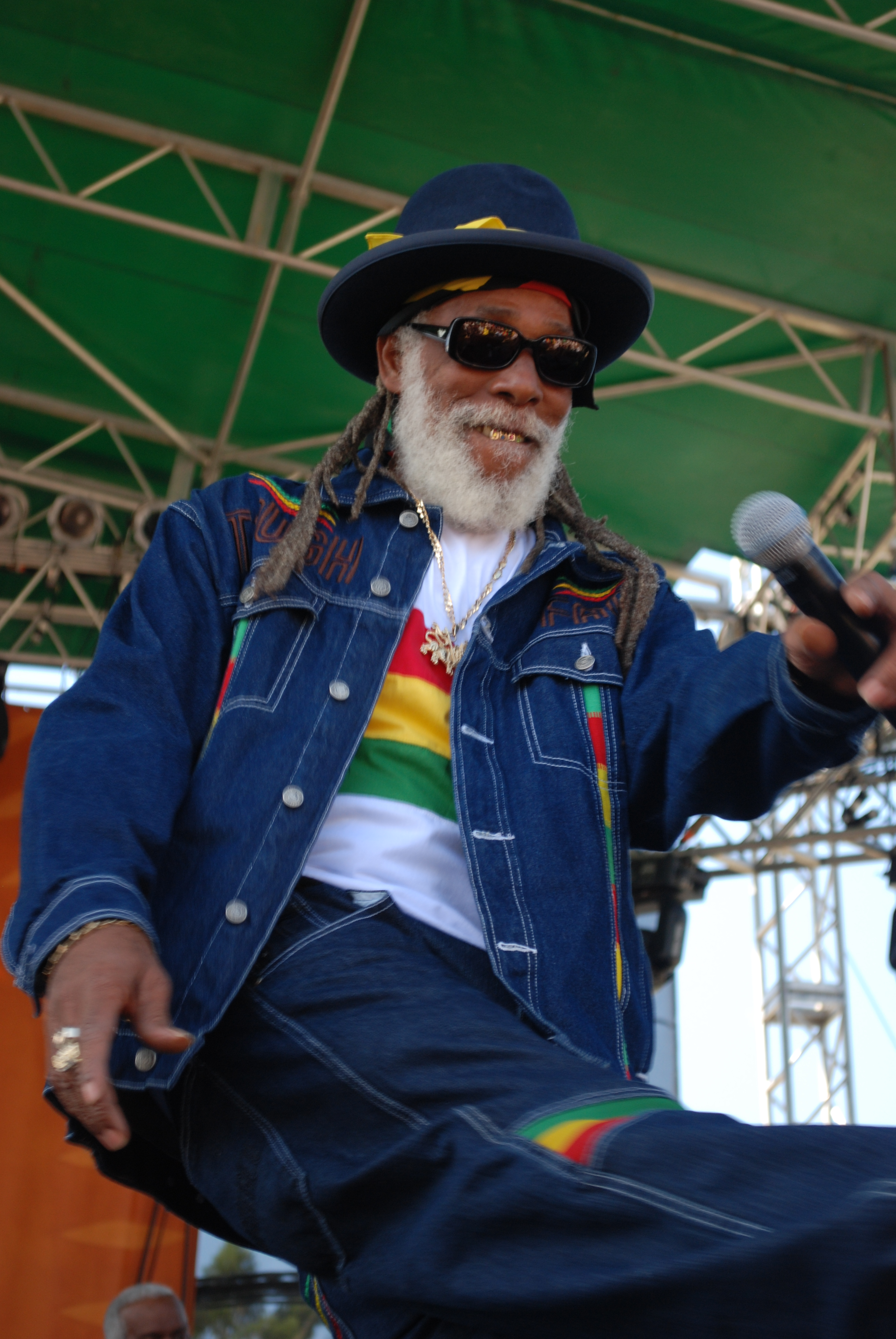 Jamaican reggae deejay (singer) "Big Youth" performing in 2010 (Sacramento, USA)